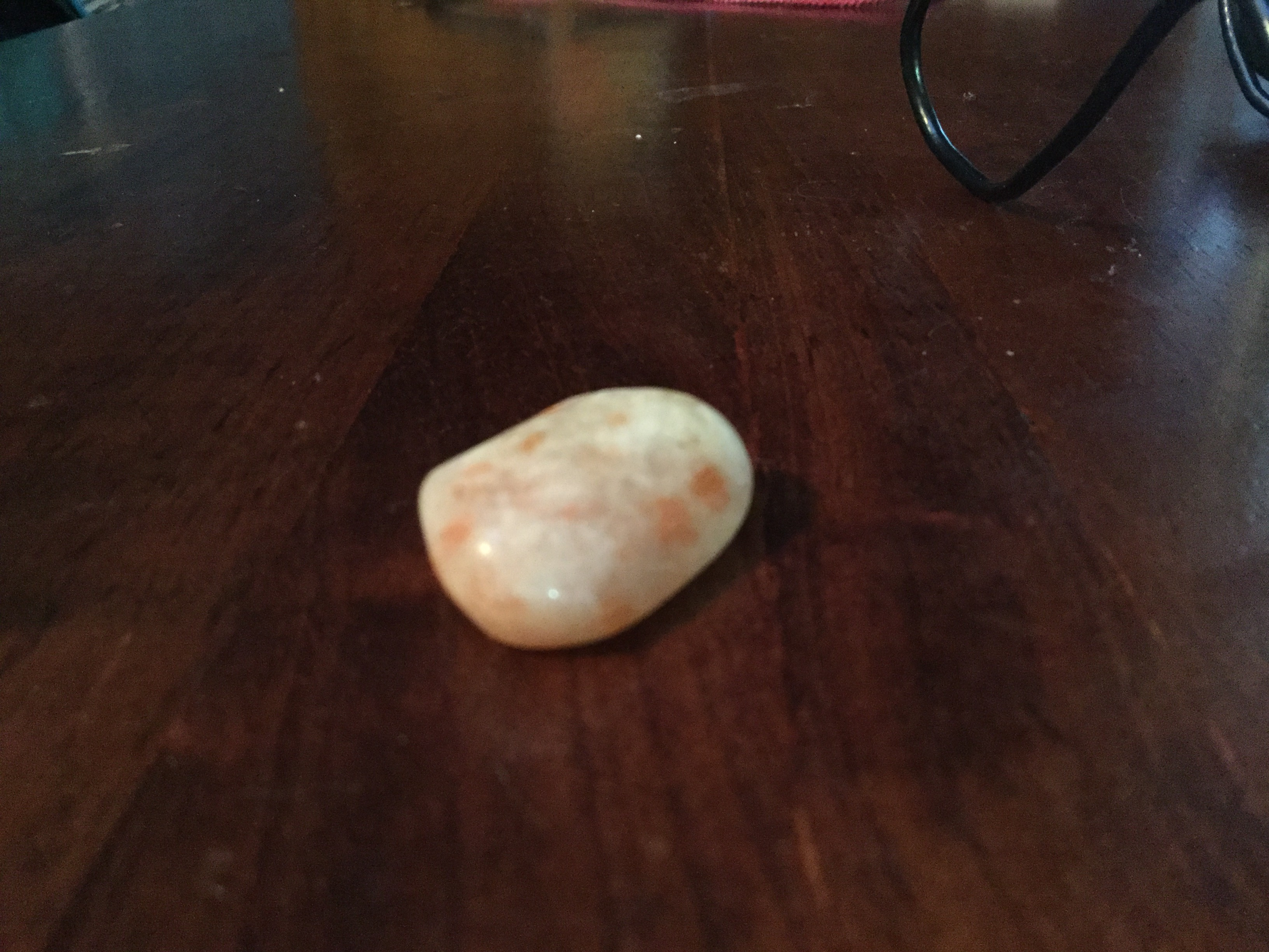 it sun